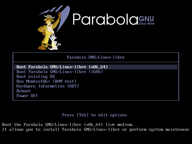 Screenshot of the Parabola GNU/Linux installer